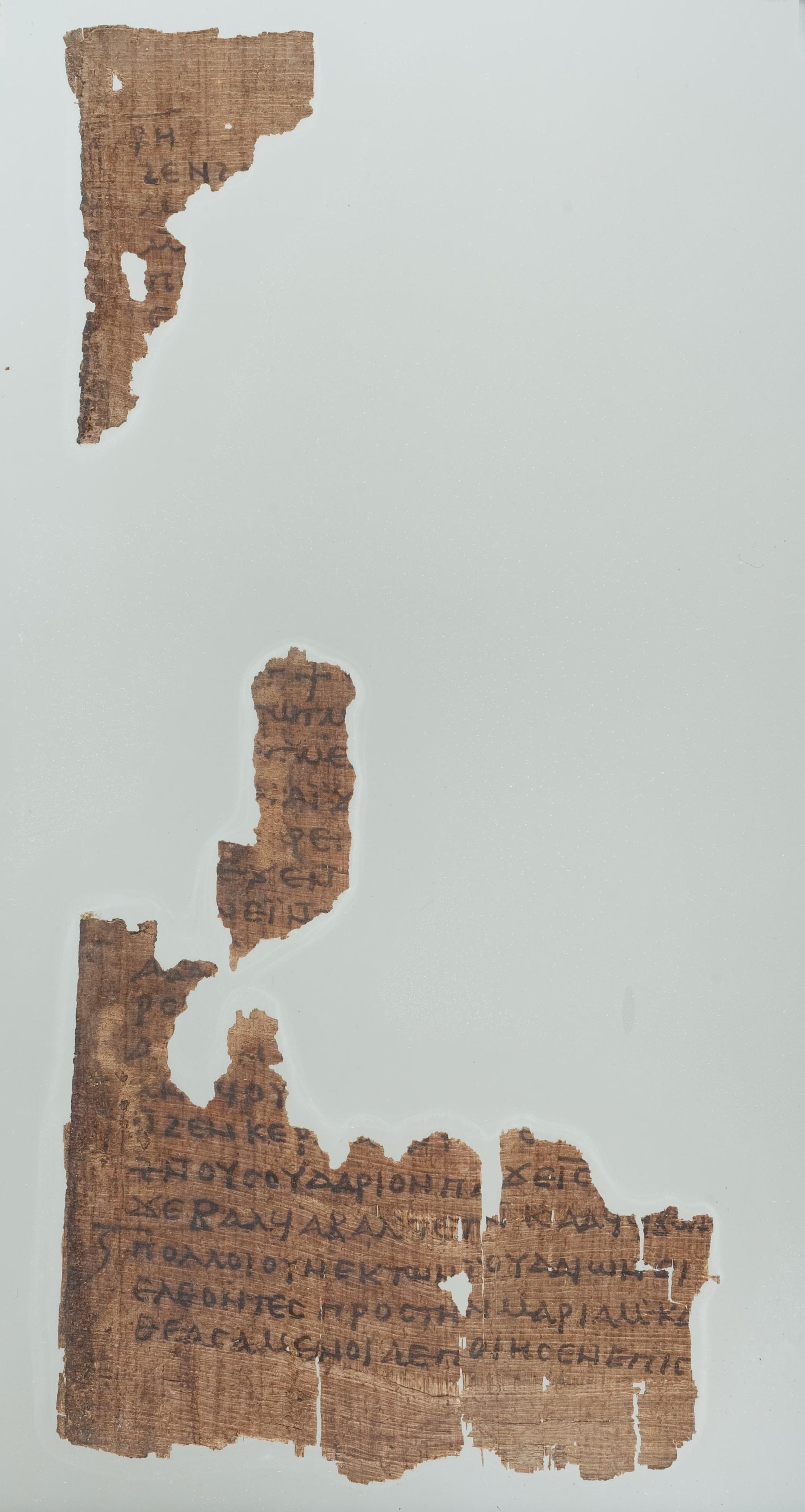 page with fragments of John 11:45